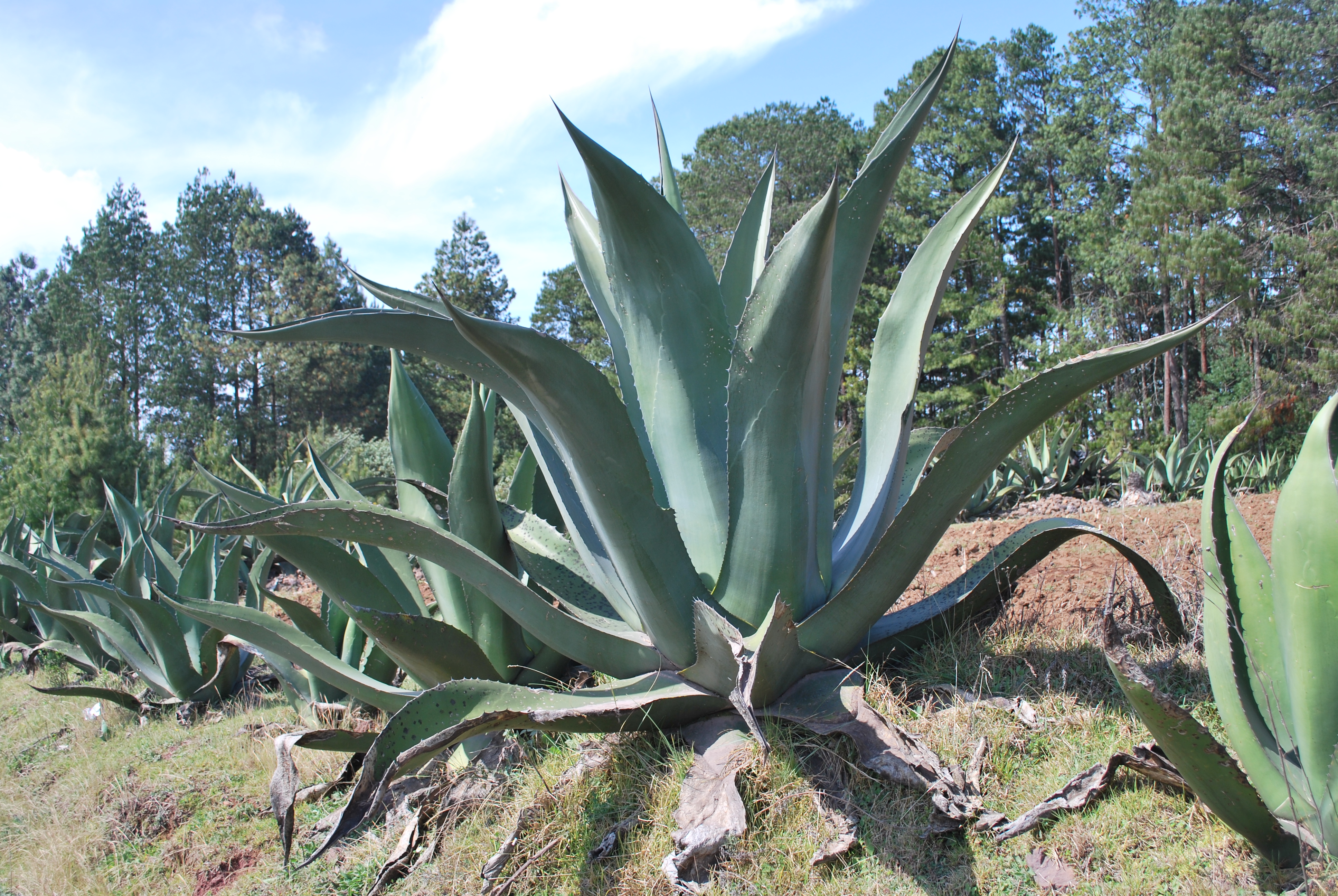 Maguey or agave plant near the Valle de las Piedras Encimadas park in Puebla, Mexico